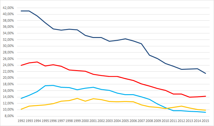 Audiences de TF1, France 2, France 3 et M6 TF1 in dark-blue France 2 in red France 3 in blue M6 in yellow